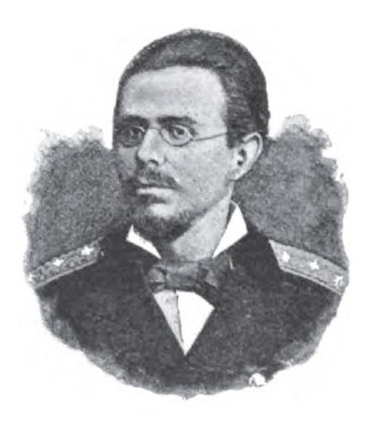 Mikhail Botov (1855-1886). Architect of Baku.